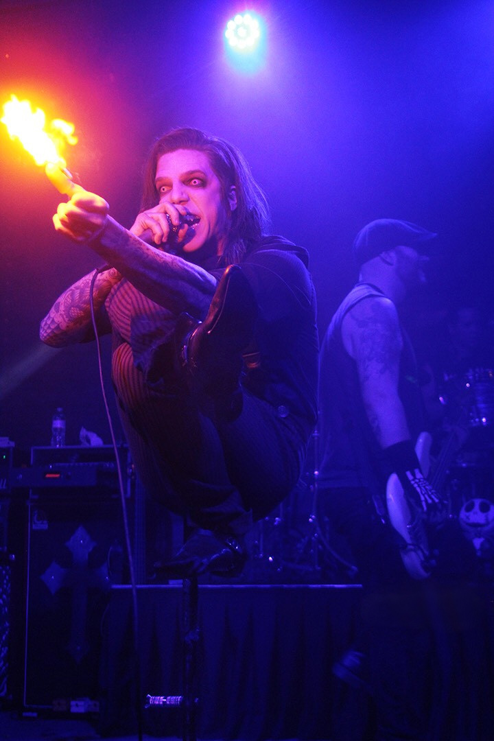 Argyle Goolsby performing with The Roving Midnight at The Limelight in San Antonio. Oct. 2018